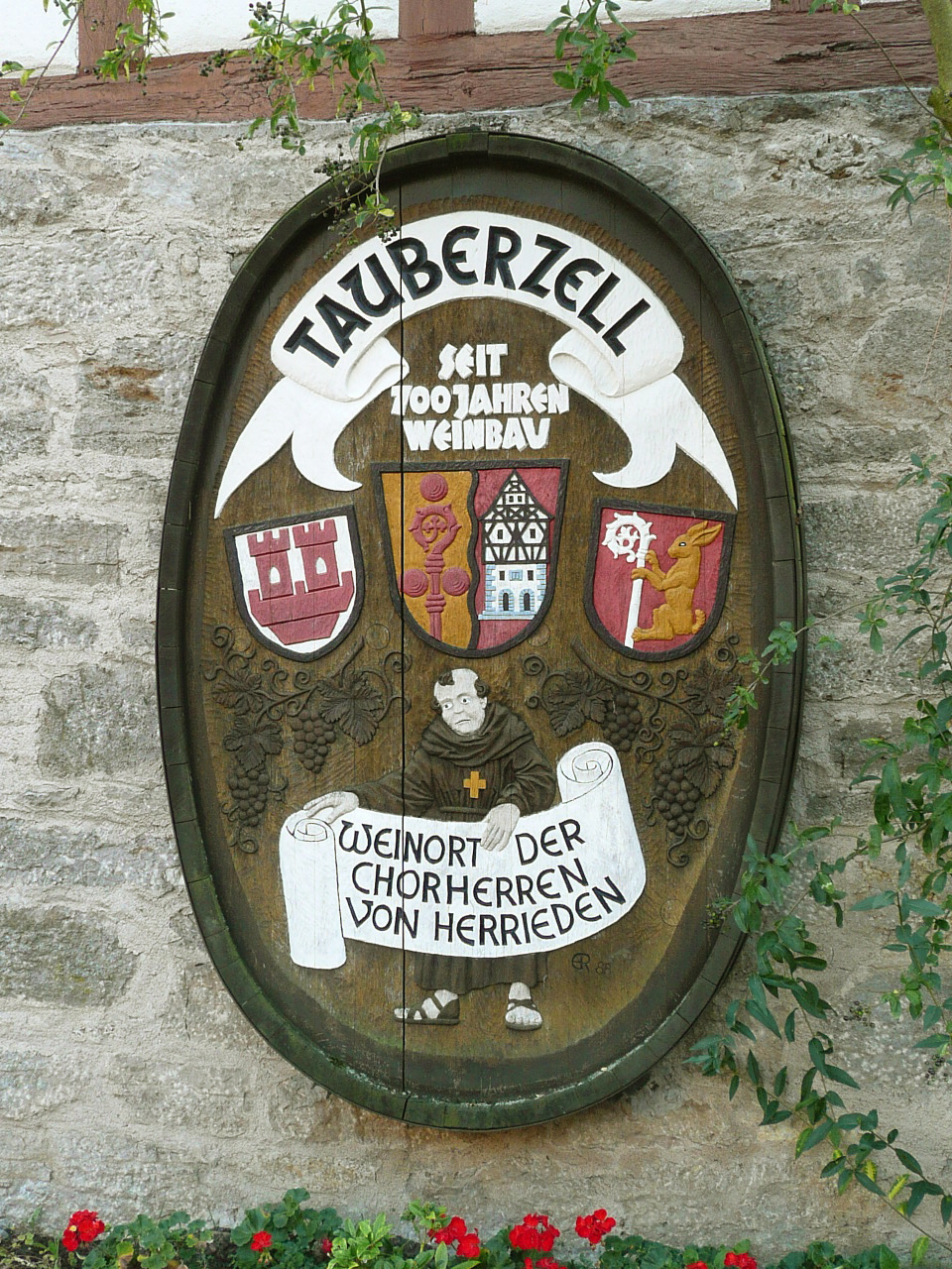 Tauberzell history